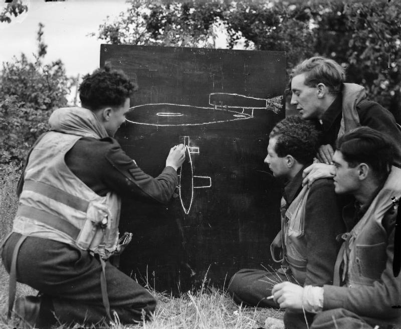 Royal Air Force 1939-1945- Fighter Command Flight Sergeant Morris Rose of No 3 Squadron points out the essential characteristics of the V-1 flying bomb to other Tempest pilots at Newchurch, 23 June 1944. The Scottish pilot downed his first 'doodlebug' on 16 June, and by the end of July had claimed a total of 11 destroyed.